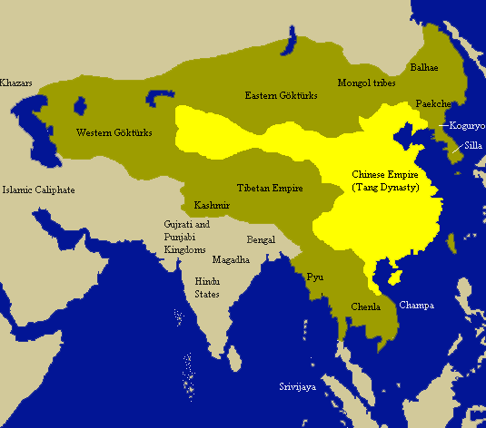 Modification in colour made to pre-existing Tang Dynasty picture (Image:Tang Empire.gif) to keep better legibility.